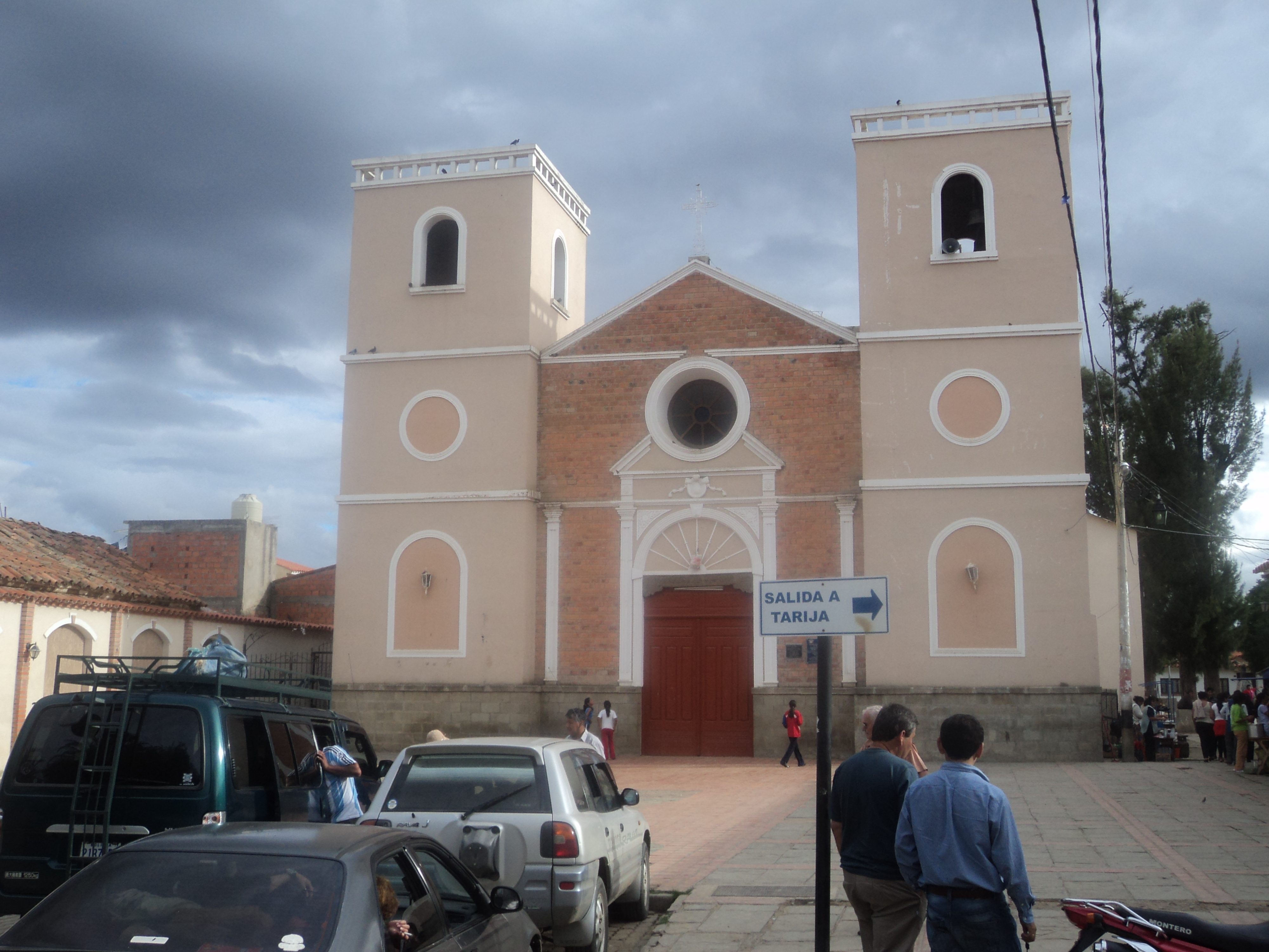 San Lorenzo Parish - San Lorenzo in Conception Valley, Avilés Province, Tarija (Bolivia)